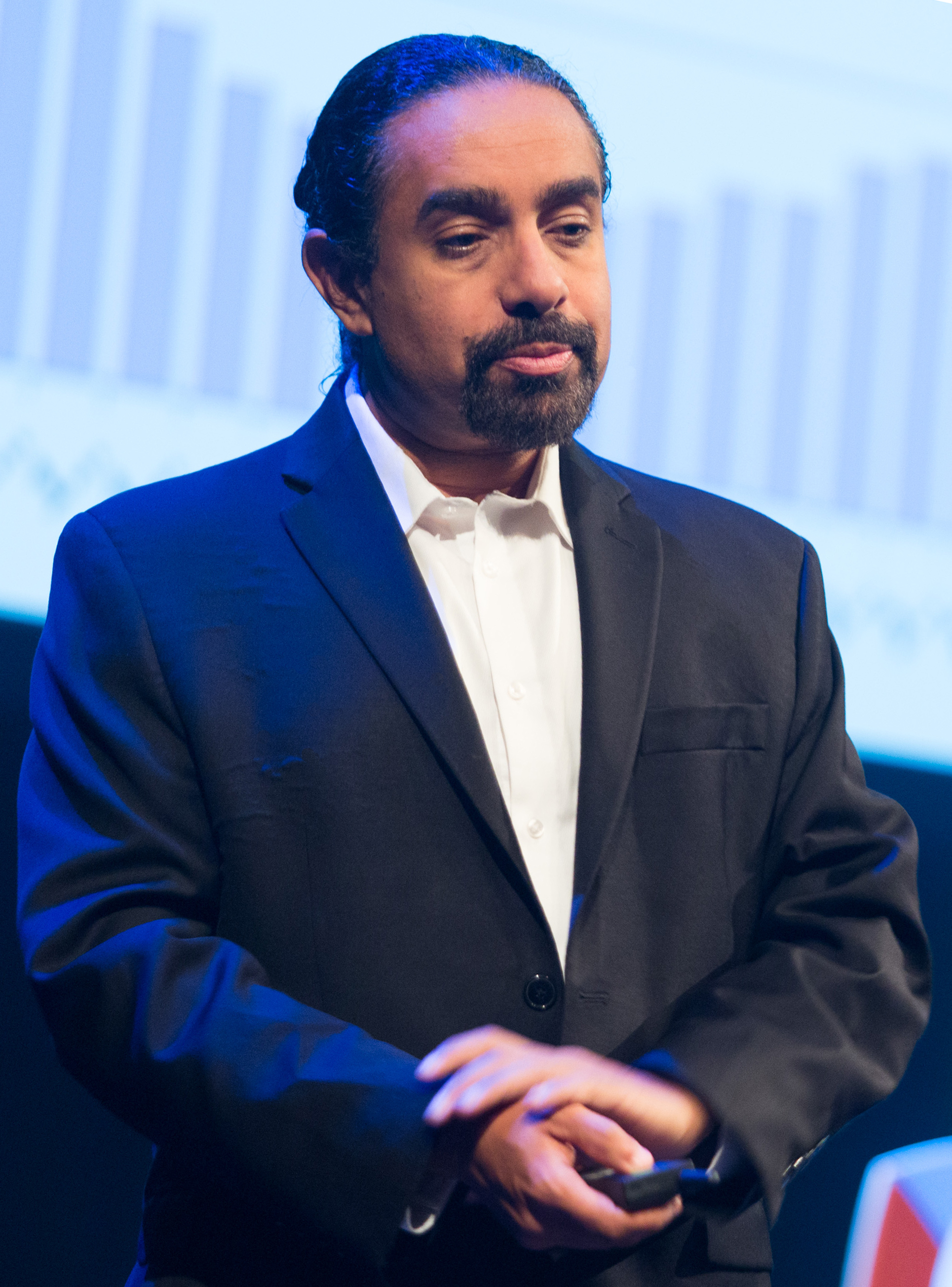 The SingularityU The Netherlands Summit 2016 took place on September 12 & 13 in Amsterdam, The Netherlands. The Netherlands Summit was aimed at bringing awareness about exponential technologies and their impact on business and policy. The theme of the summit was "Reality Check - Fast-Forward into our Future". For more information